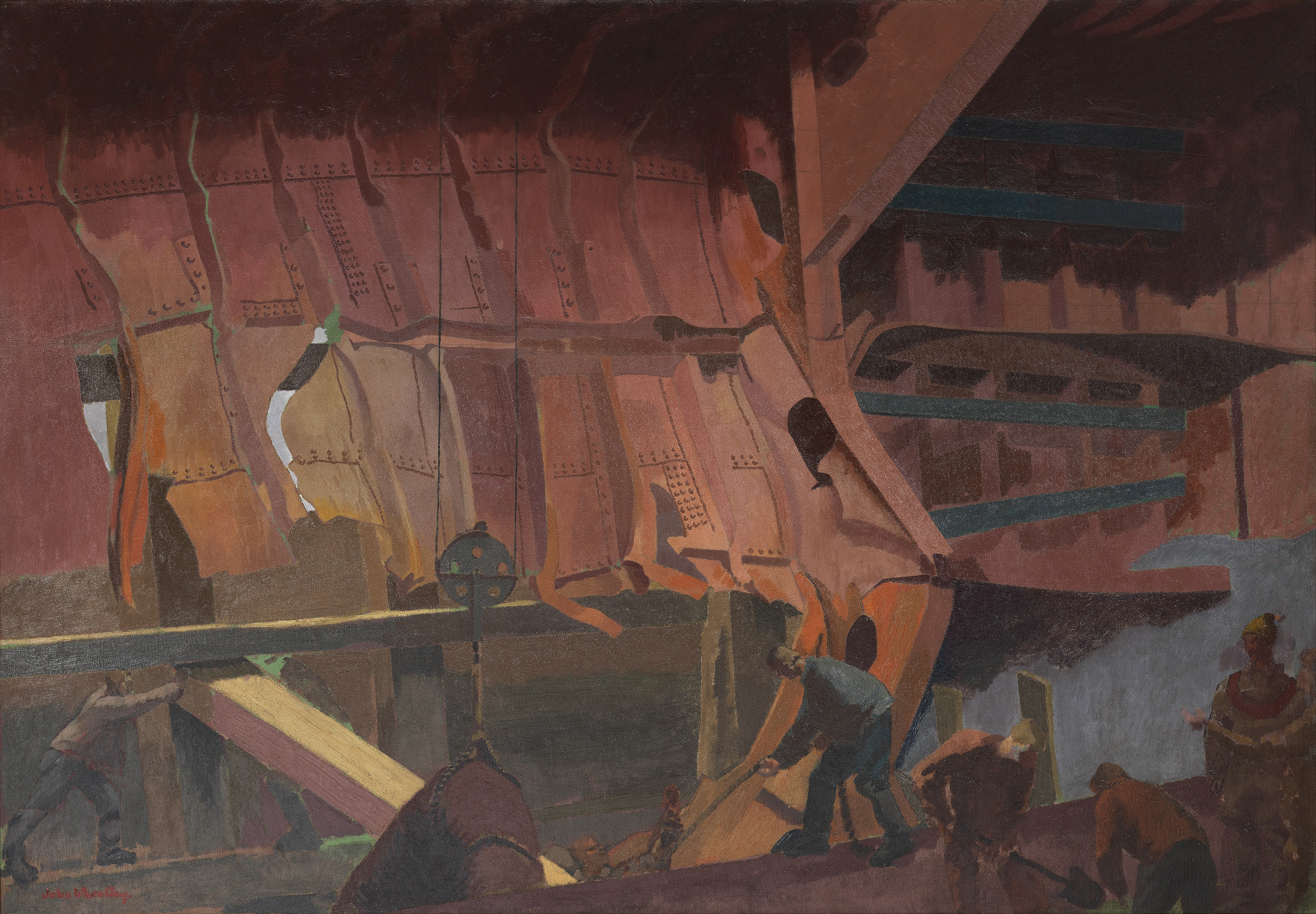 Divers at work Repairing a Torpedoed Ship image: A torpedo-damaged ship being repaired. A group of men in the right bottom corner of the composition are visible at work, with two men inside the ship seen in the bottom left corner.